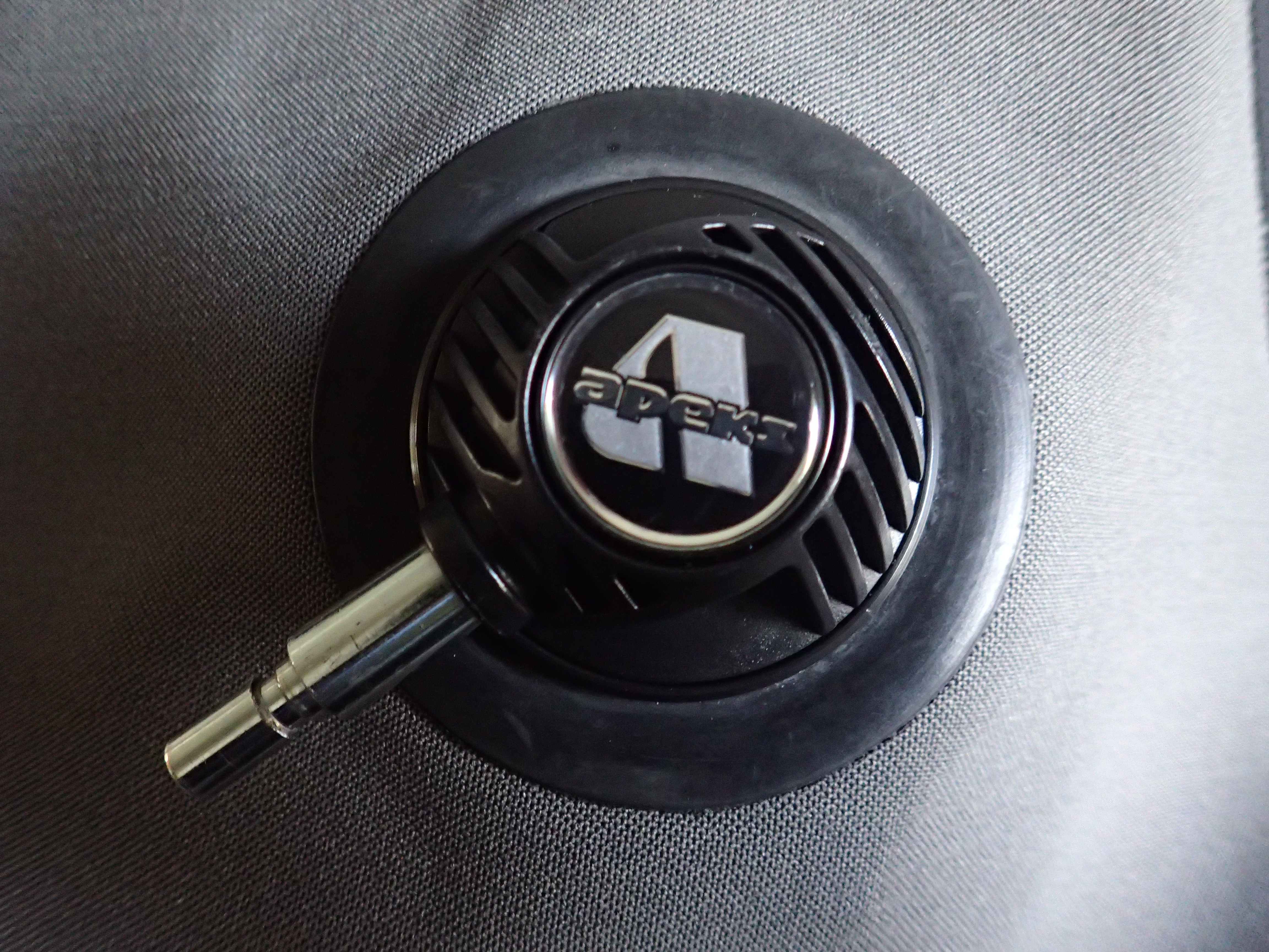 Apeks dry suit inflation valve on O'Three neoprene suit